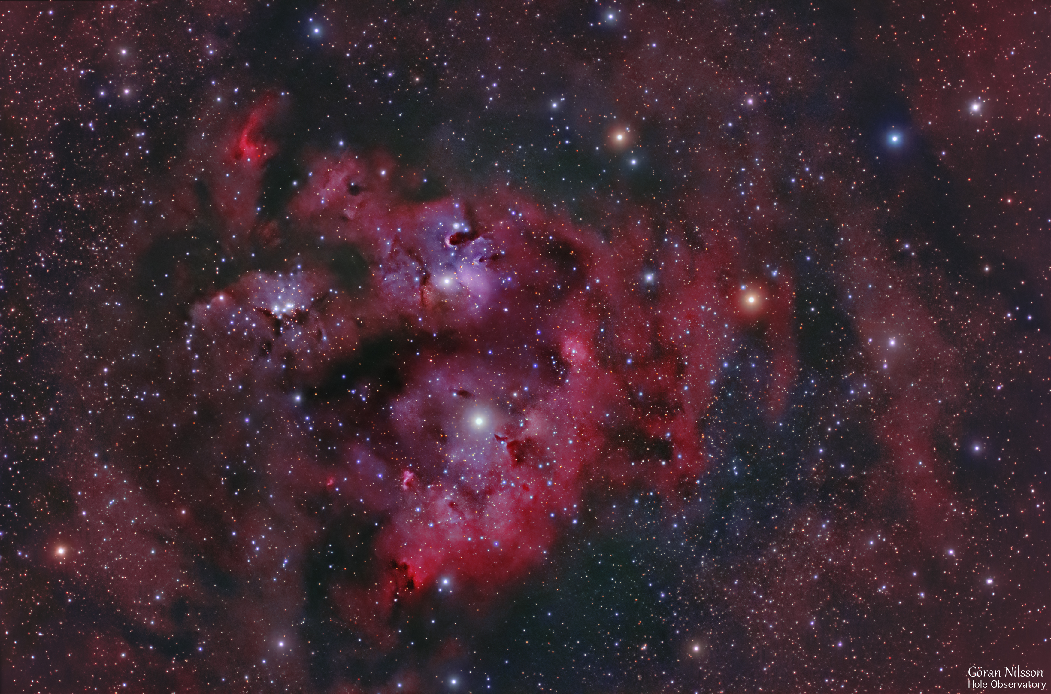 RGB image taken through a 5" apo refractor (ES 127ED) with a Canon EOS 60Da camera (31 x 8 min exposures at ISO1600) on an EQ8 mount